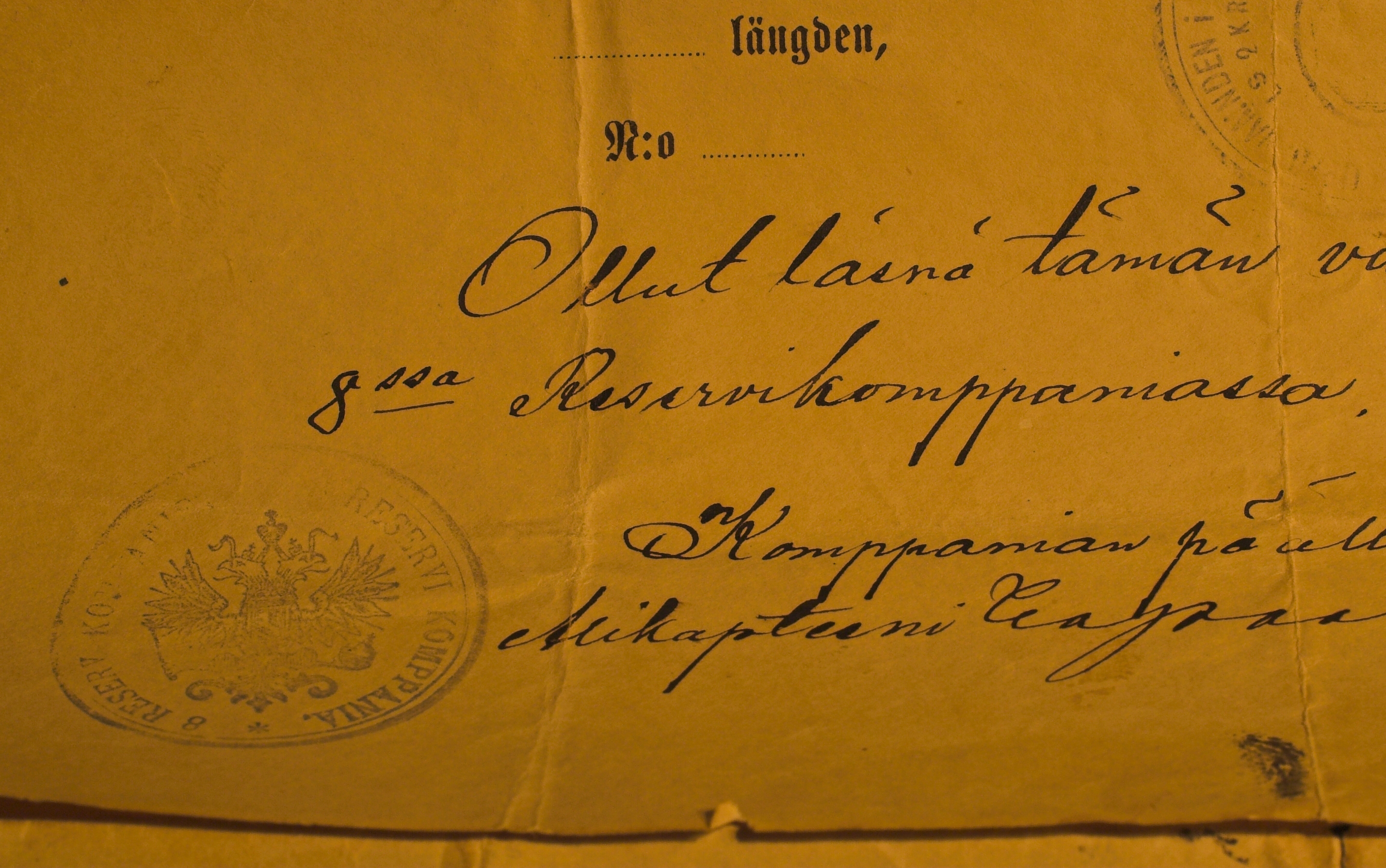 Finnish reserve training participation certificate originating from 1897. The certificate illustrates Swedish as administrative language (printed part), Finnish, used as instructional language (hand written part) and the Russian imperial eagle, as during the time when the certificate was issued, Finland was a Grand Duchy of Finland, part of the Russian Empire.